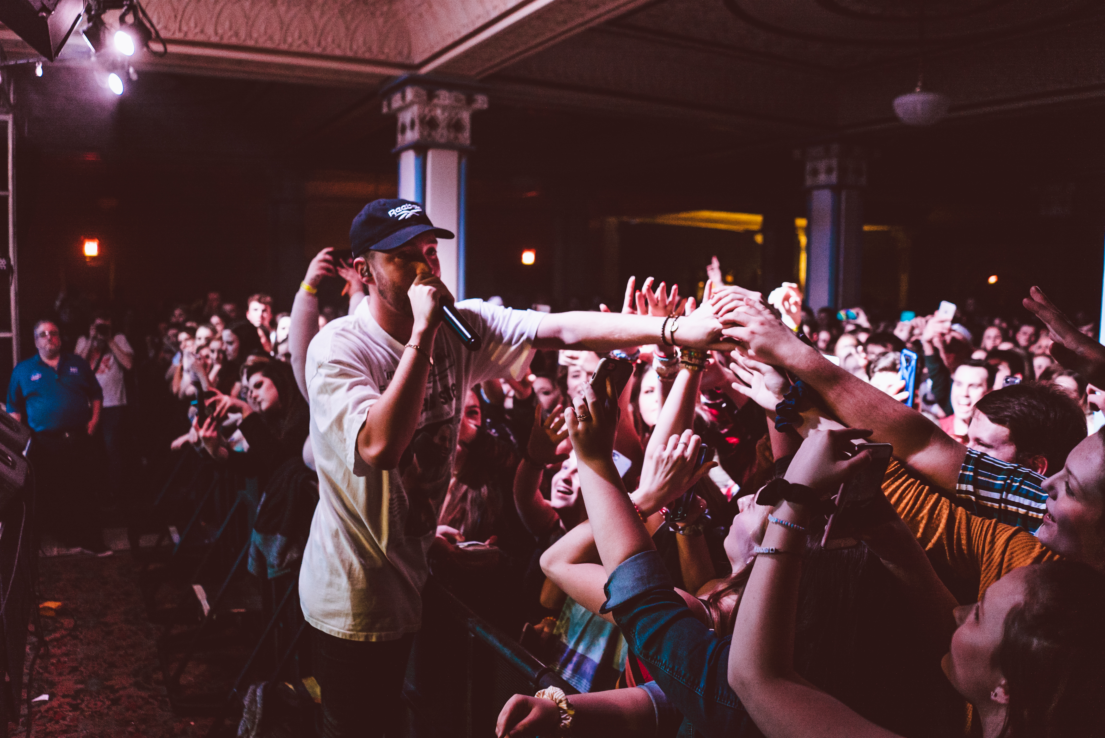 Kid Quill performing in Indianapolis, IN at the Old National Centre.